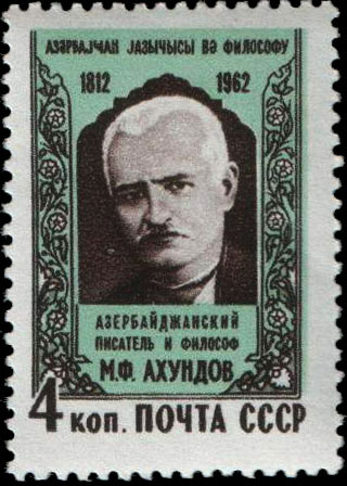 150th Birth Anniv of Akhundov